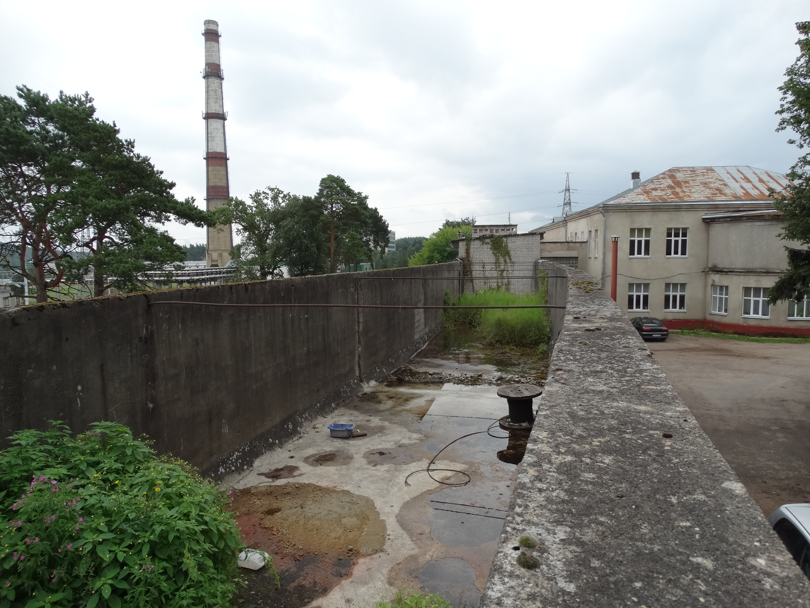 Former aqueduct (water supply), Grigiškės, Lithuania